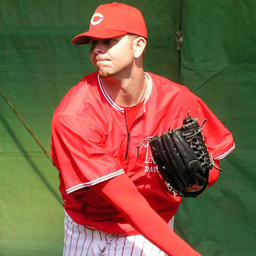 Tom Davey, pitcher of the Hiroshima Toyo Carp, at Nichinan Tempuku Baseball Stadium.